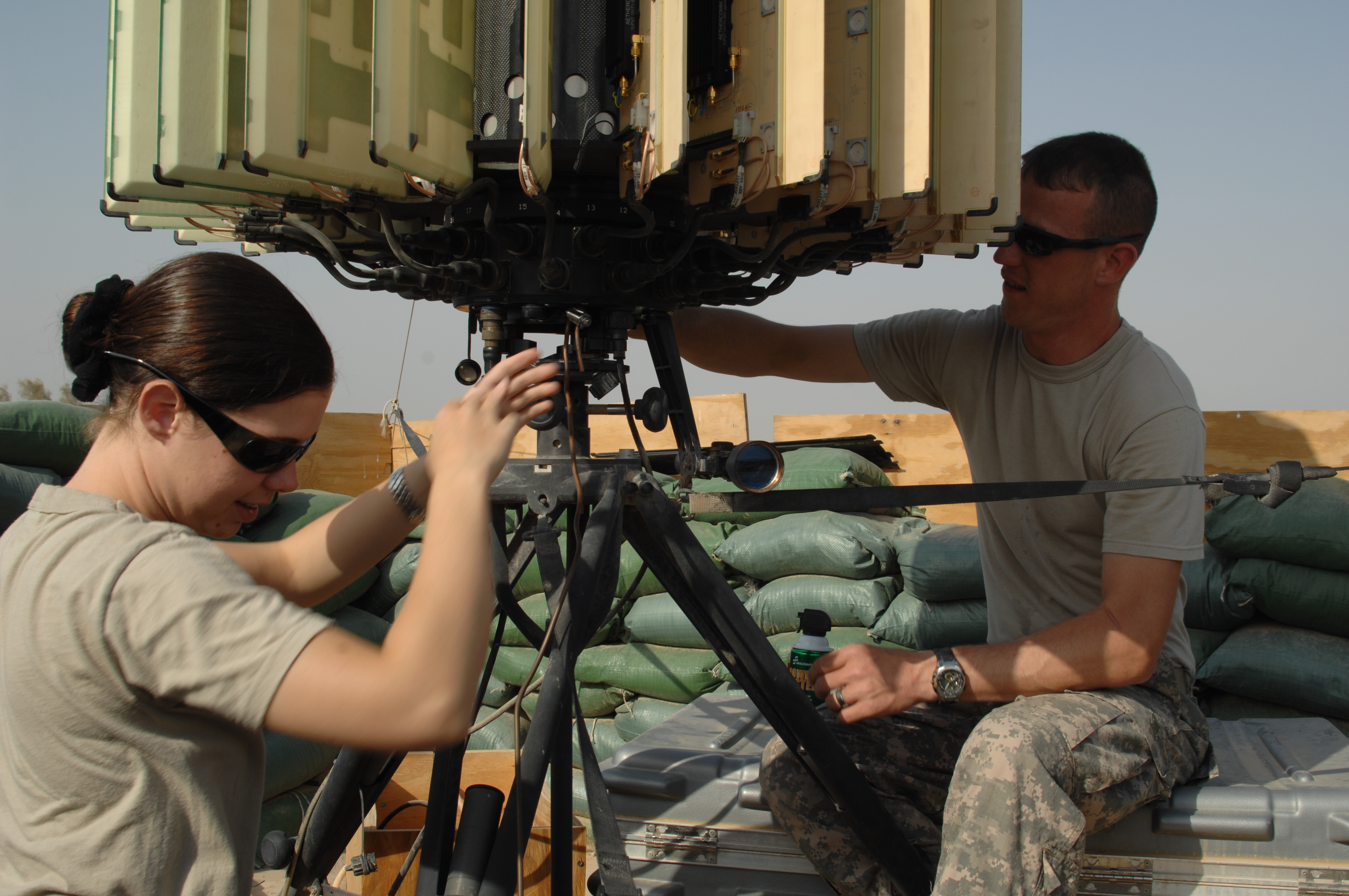 Pfc. Alysha Gleason and Sgt. Chad Ervin, both members of the Counter Rocket, Artillery and Mortar Team, Echo Battery, 4th Battalion, 5th Air Defense Artillery Brigade, conduct maintenance on a radar station at Forward Operating Base Delta in southern Iraq, Aug. 22. See more at